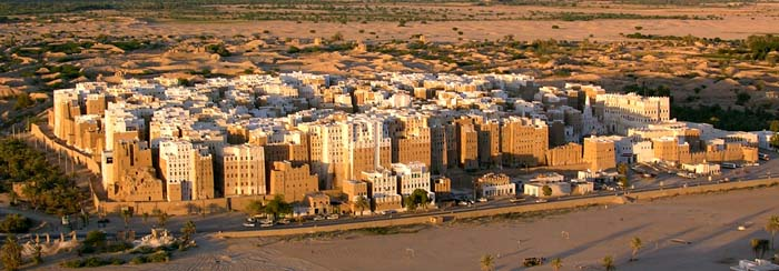 Shibam, Yemen